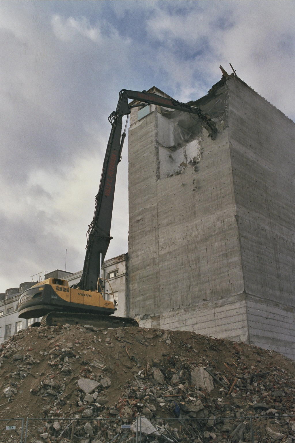 An excavator demolishing a grain elevator at the former SOK mill in the harbour of Toppila in Oulu, Finland. The silo was constructed in 1977.